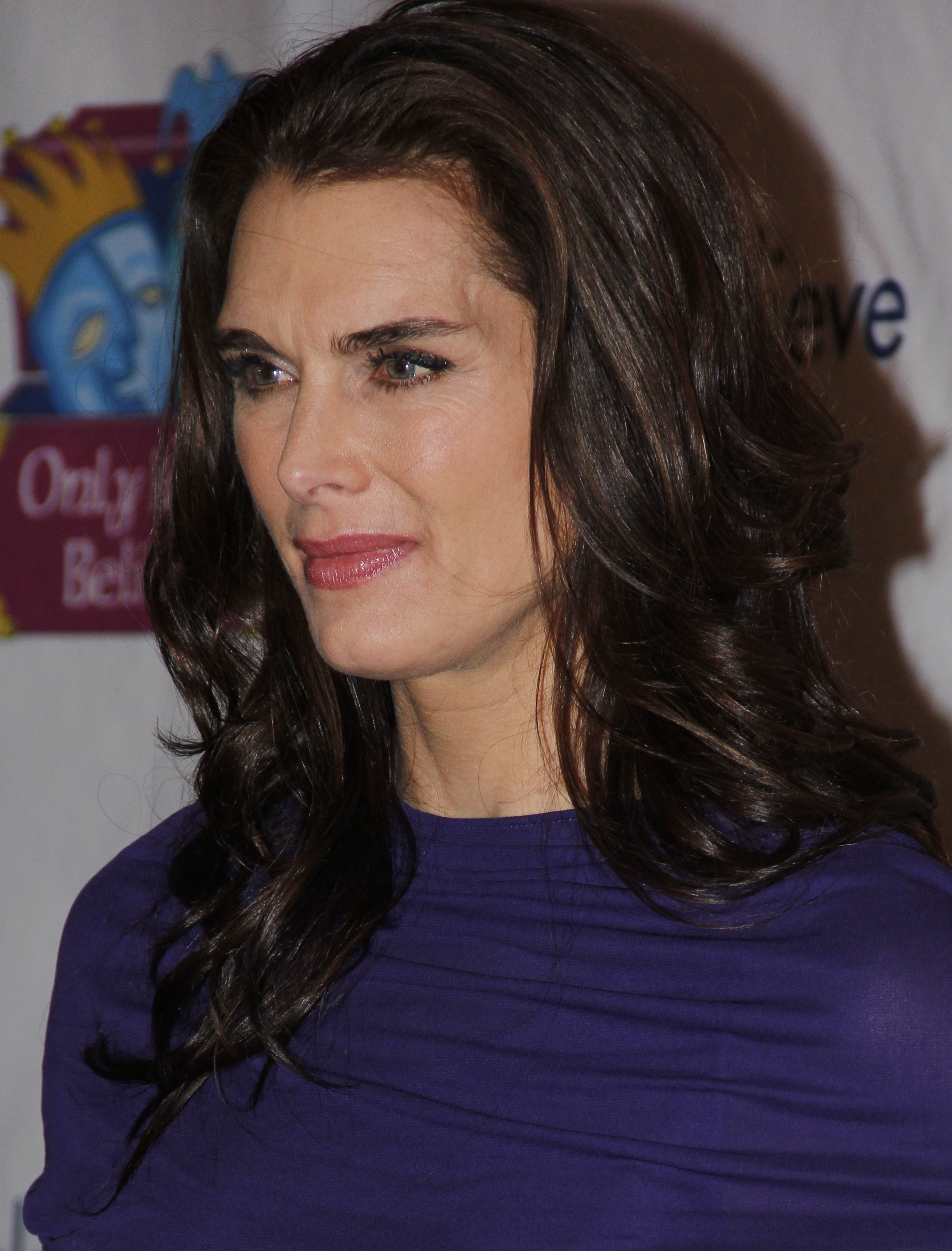 Brooke Shields at the Make Believe On Broadway 2011, New York City.